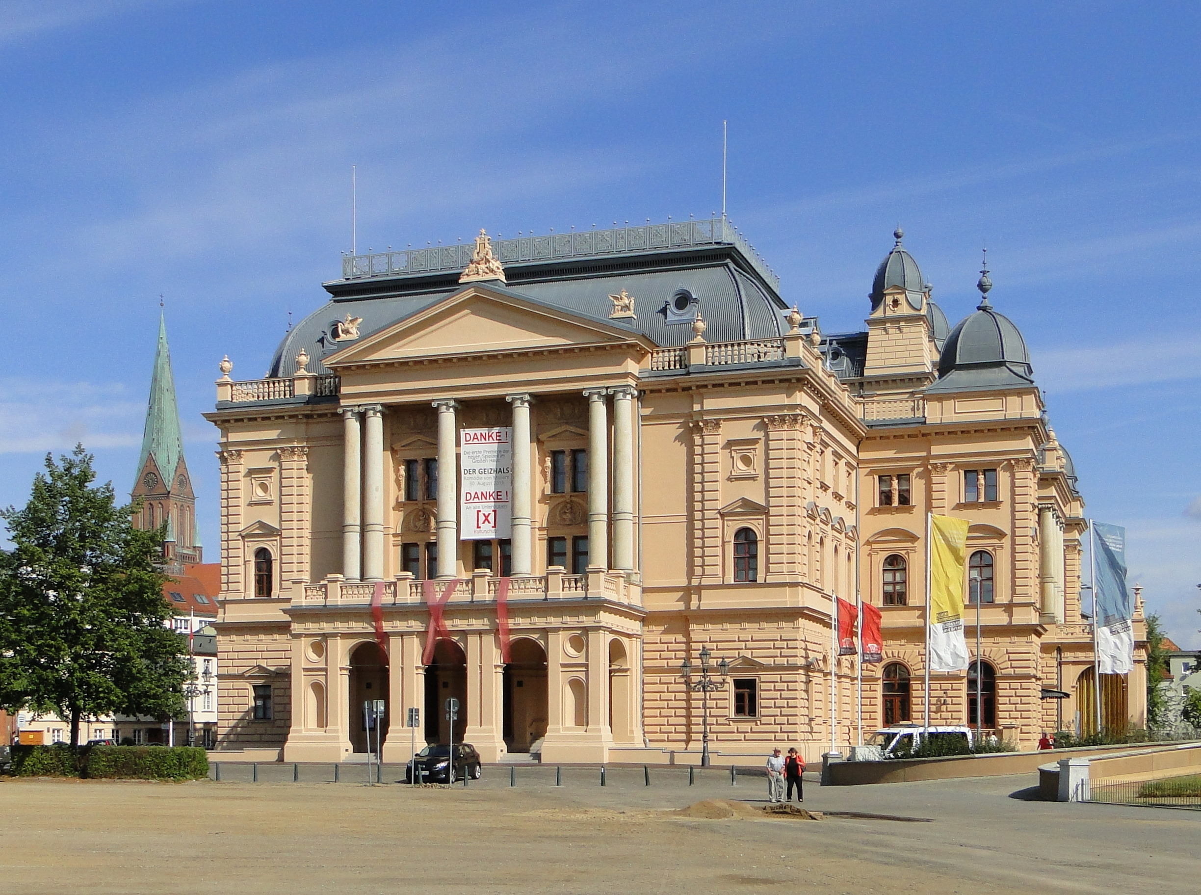 Mecklenburgisches Staatstheater in Schwerin, Mecklenburg-Vorpommern, Germany